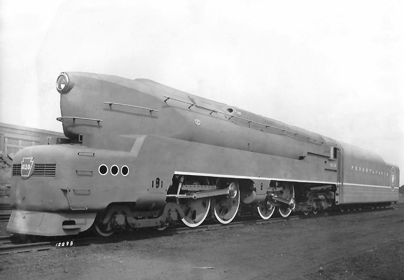 Photo of a Pennsylvania Railroad streamlined steam locomotive T1 class. Note the photo uploaded is of better quality than the one shown in the newspaper scan. A renewal search was done in periodicals for the years 1969 and 1970. There were no listings for the Wilkes-Barre Record. There is no evidence of renewal.